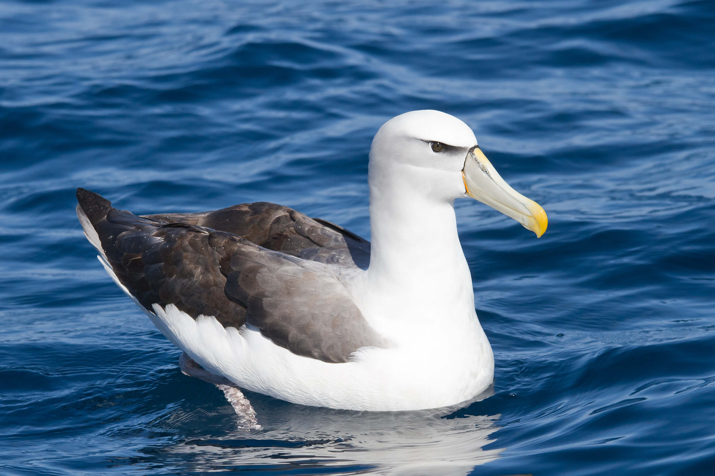 Shy Albatross (Thalassarche cauta), East of the Tasman Peninsula, Tasmania, Australia